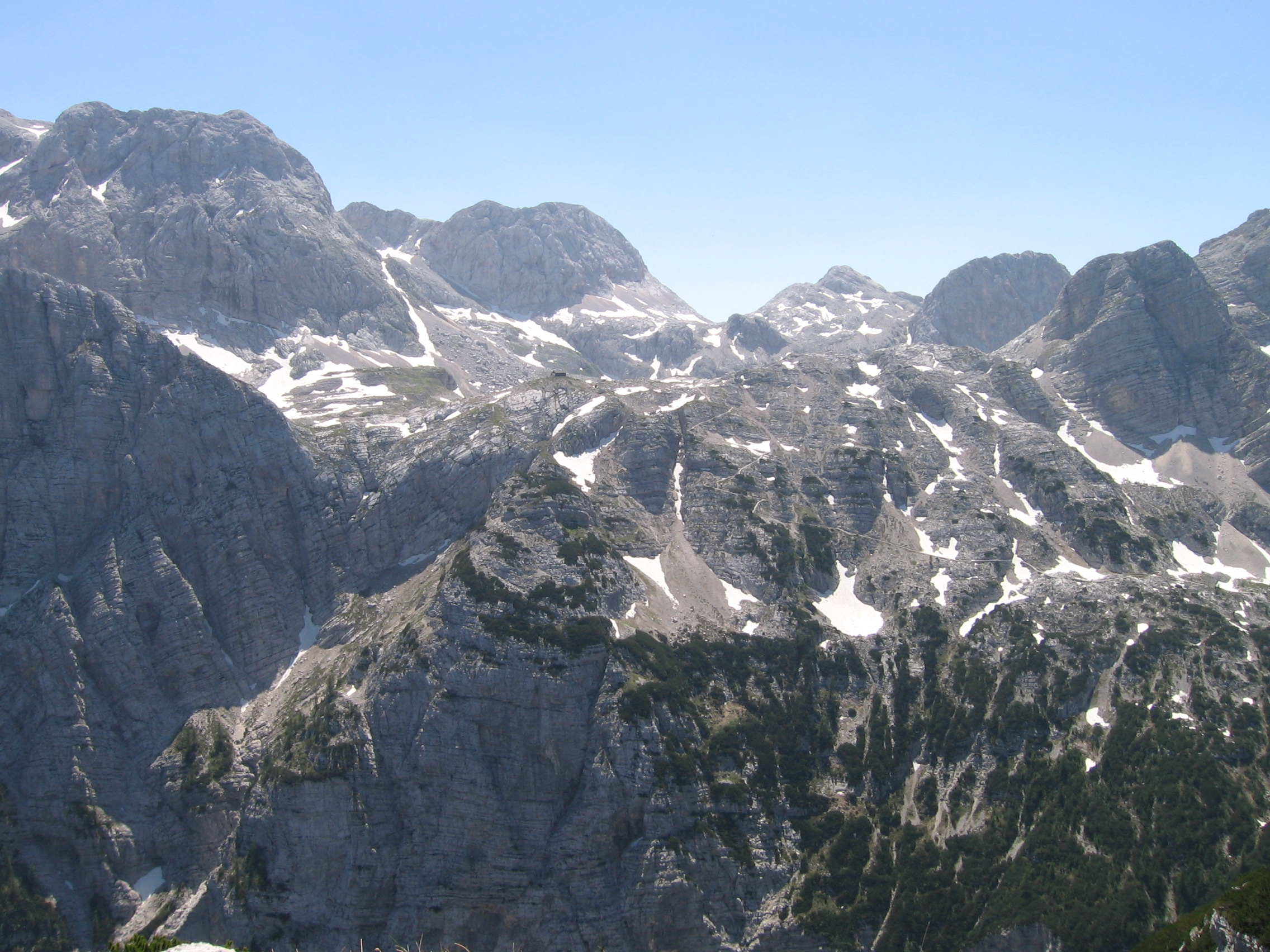 Prehodavci pass, above the Trenta valley, in Julian Alps